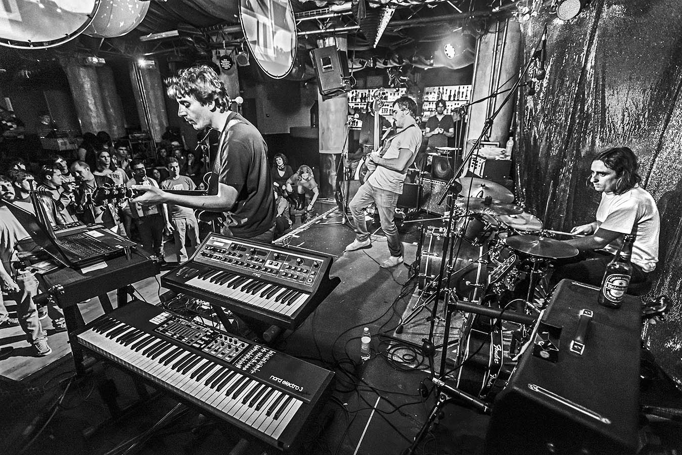 Al Berkowitz live at Taboo Venue (Madrid, 2012)